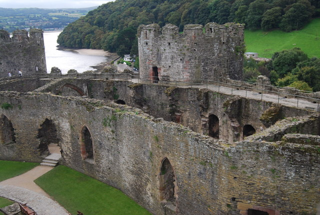 Conwy Castle - The Great Hall